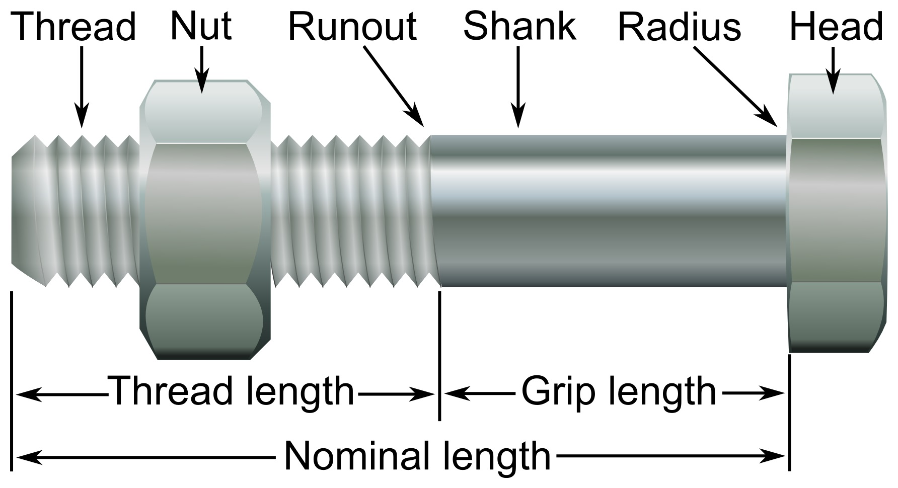 Bolt and nut.